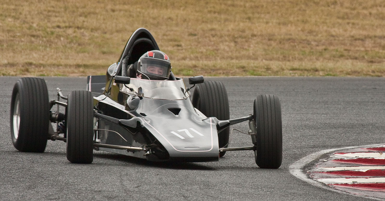 Historic Racing, Eastern Creek, Australia May 2010. Unofficial practice. John Smith - 1978 Lola T440 20100430-IMG_0763